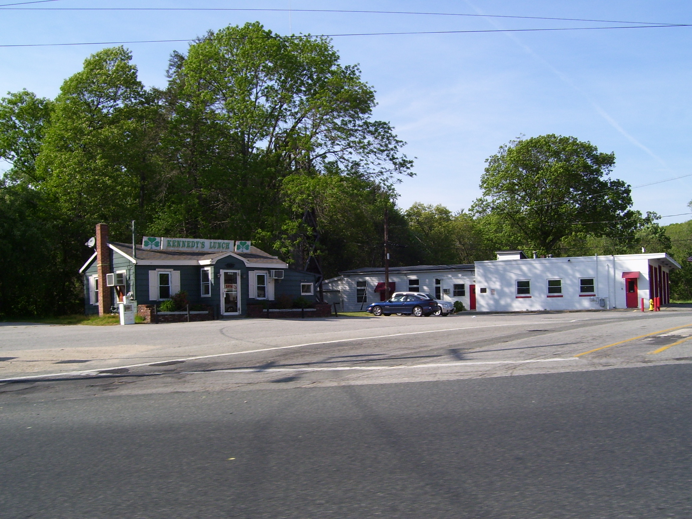 This is my 2008 photo of Branch Village, Rhode Island.